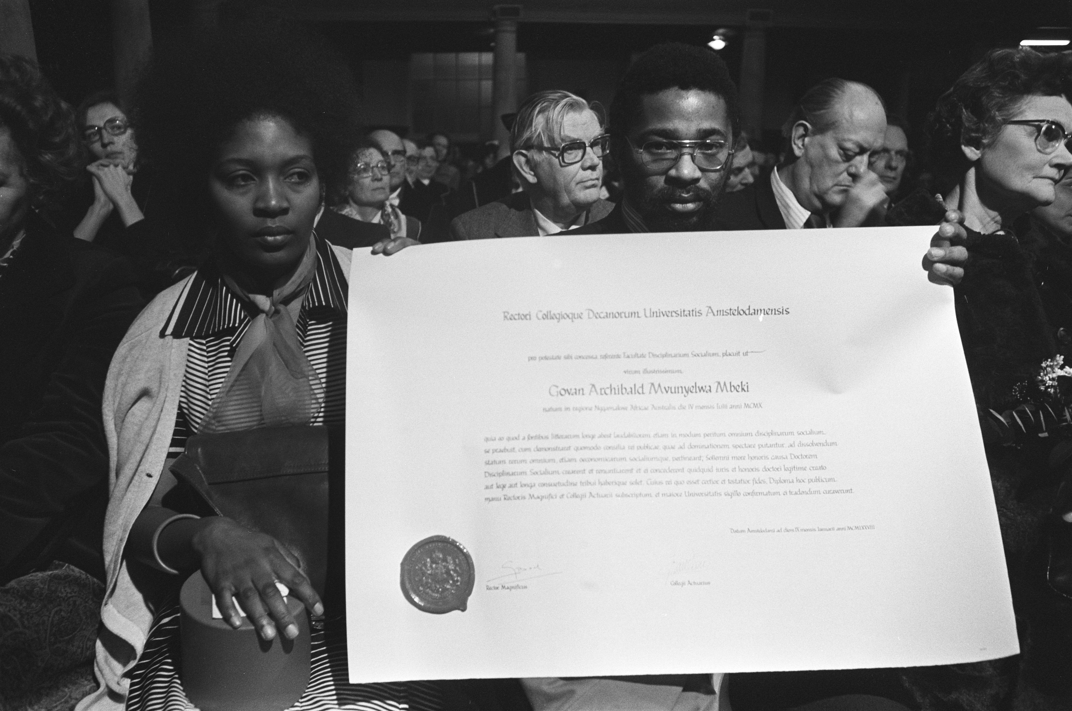 Honorary doctorate (social sciences) from University of Amsterdam to Govan Mbeki (1978). As Govan Mbeki was in prison, the doctorate was handed to his son Moeletsi Mbeki.